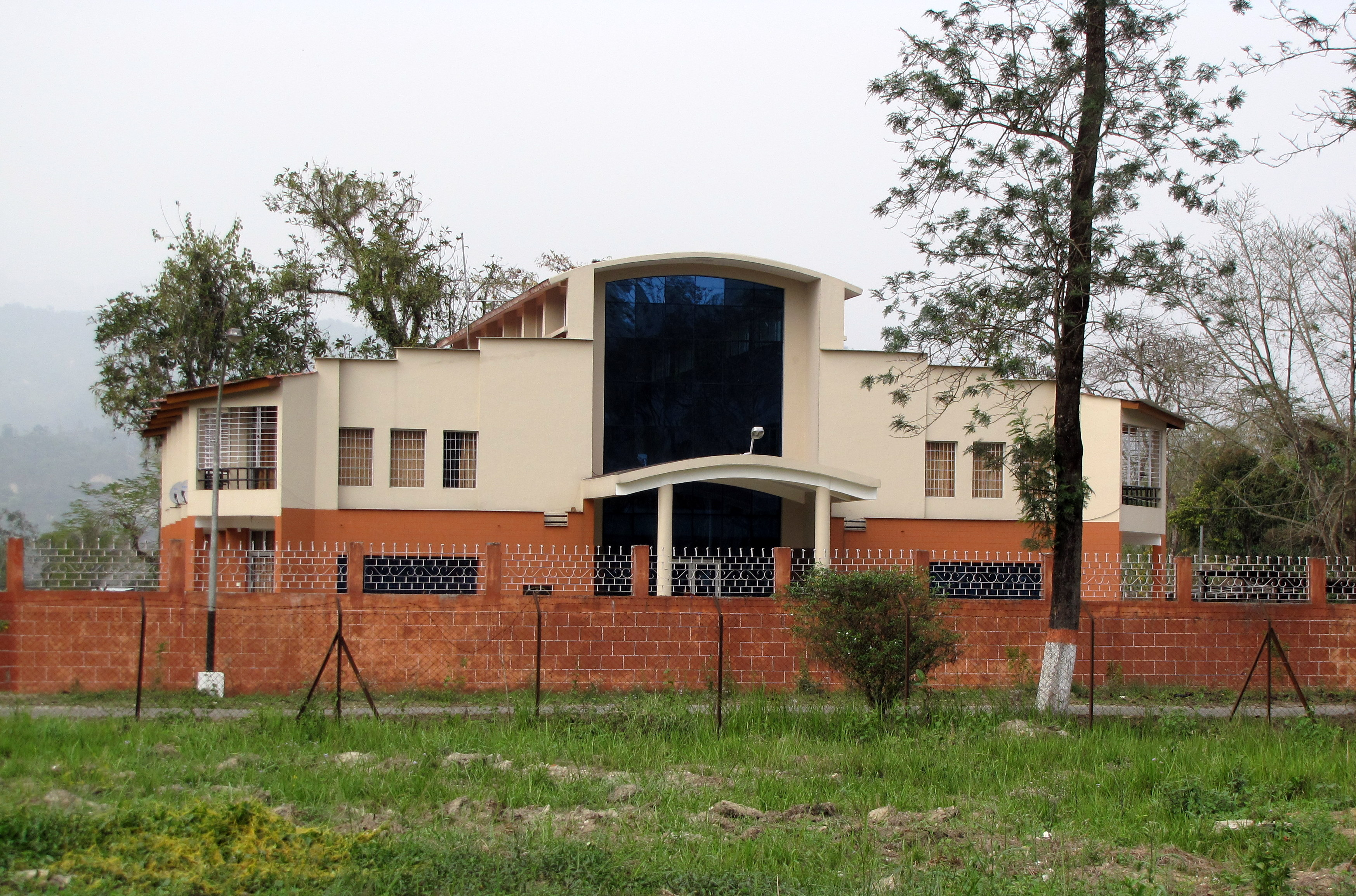 Guest house of NERIST